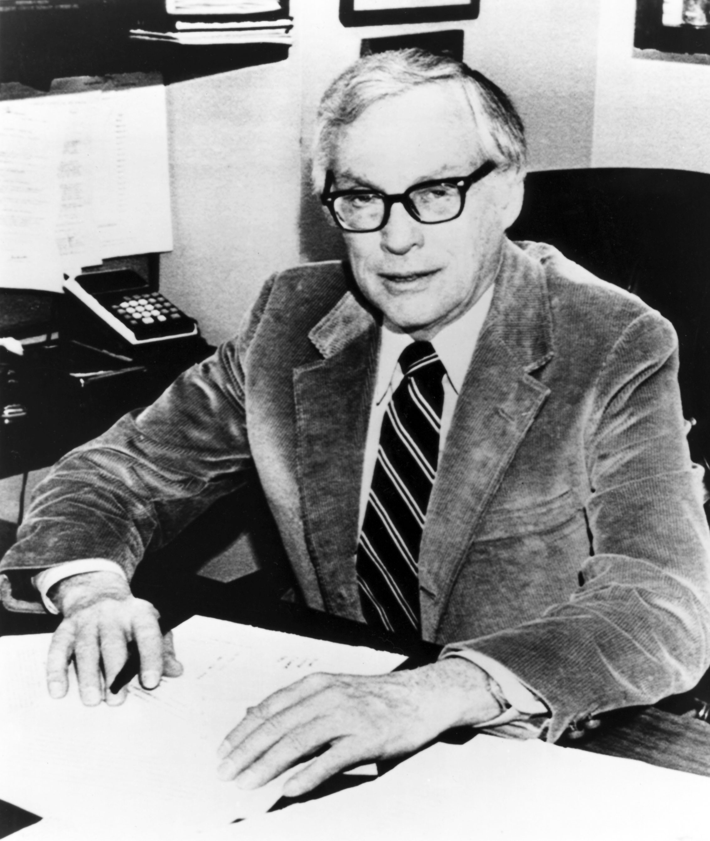 Title: Historical Portrait: Elwood V. Jensen Description: Portrait of Dr. Elwood V. Jensen who in 1980 received the Charles F. Kettering under the General Motors Cancer Research Foundation. Subjects (names): Jensen, Elwood Topics/Categories: Historical -- People People -- Adult Type: B&W Source: General Motors Cancer Research Foundation Author: Unknown Date Created: Unknown Date Added: 1/11/2010 Reuse Restrictions: None - This image is in the public domain and can be freely reused. Please credit the source and/or author listed above.